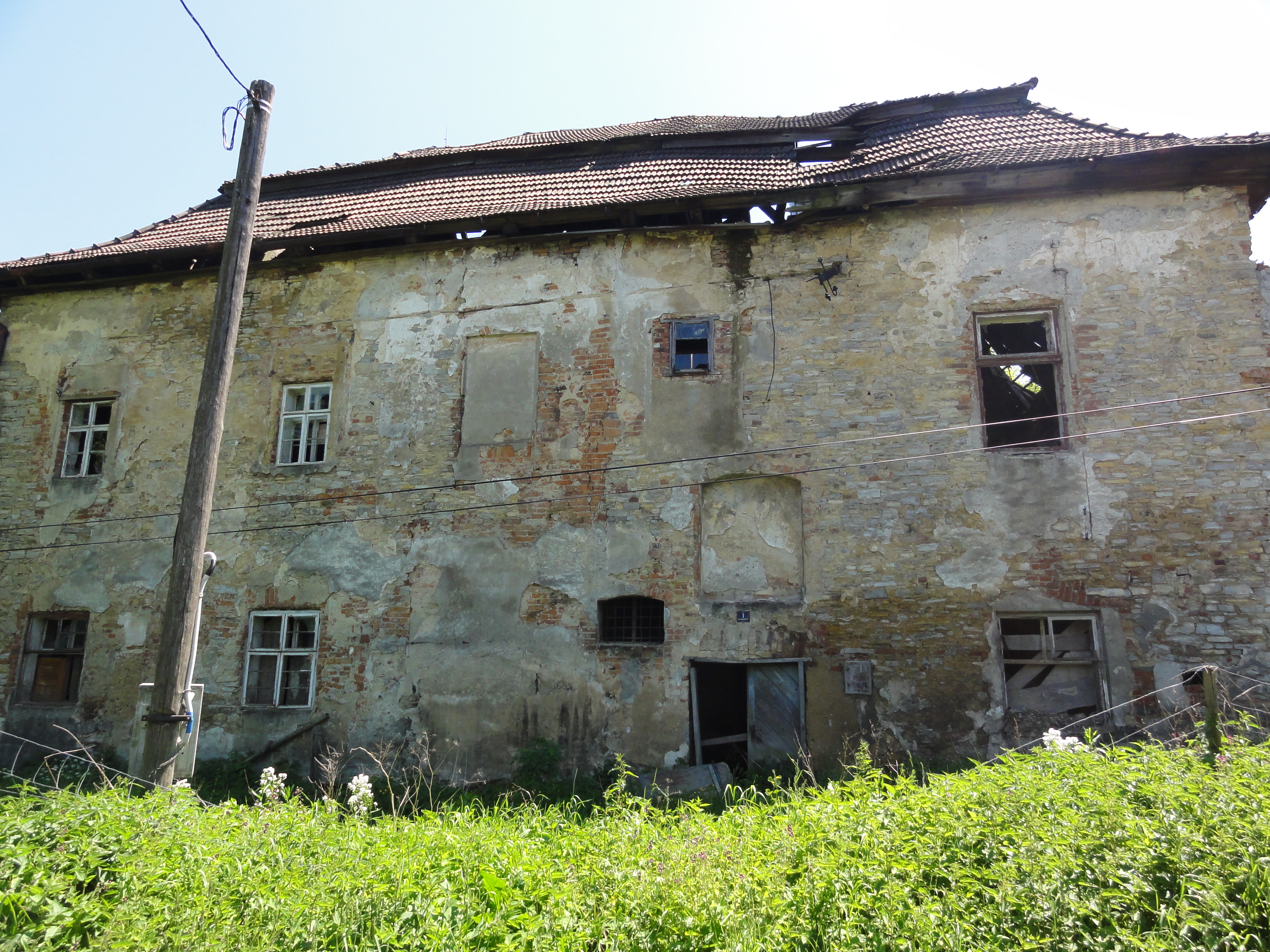 Manor house in Wilamowice